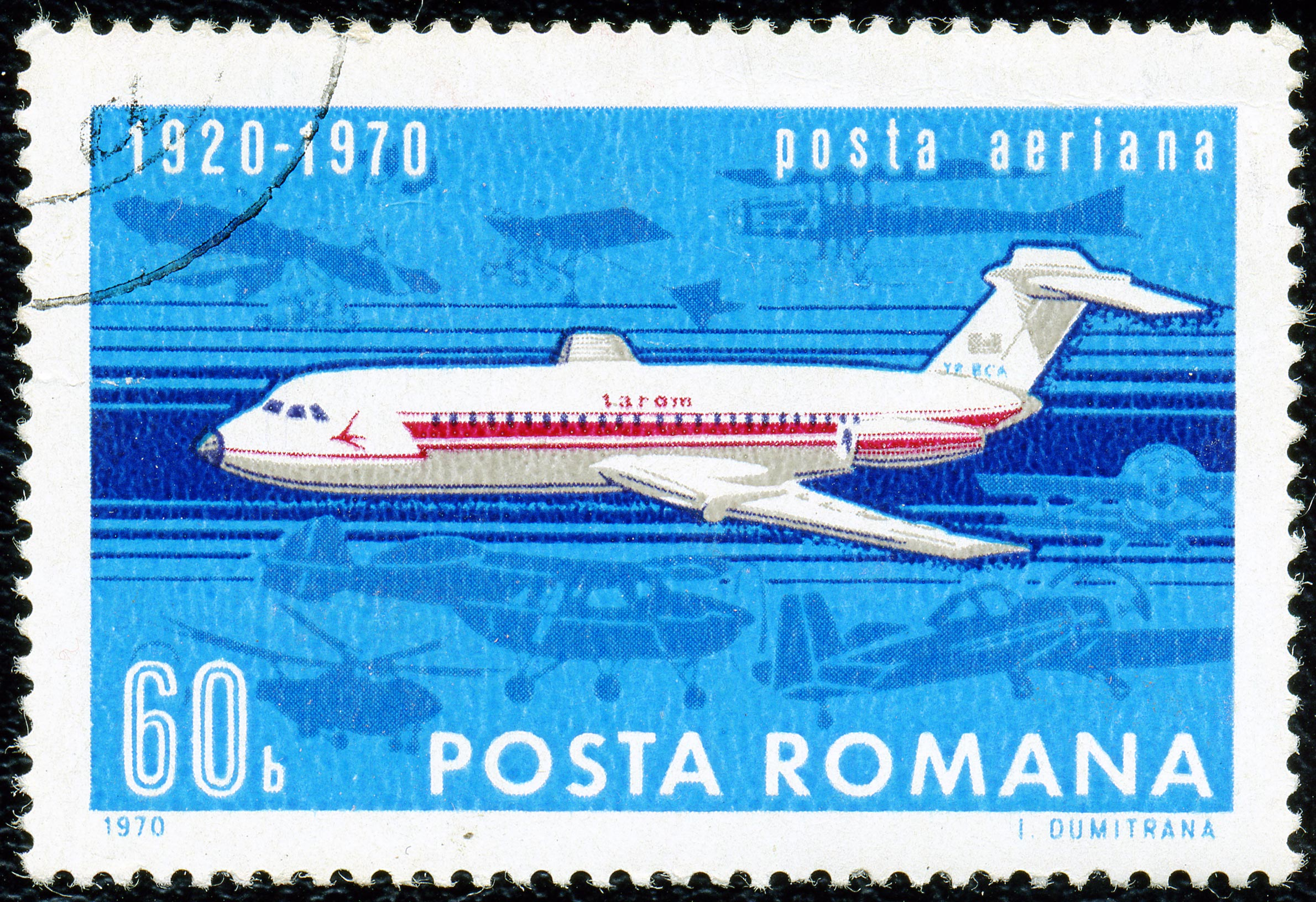 Stamp of Romania. 1970. Posta aeriana 1920-1970